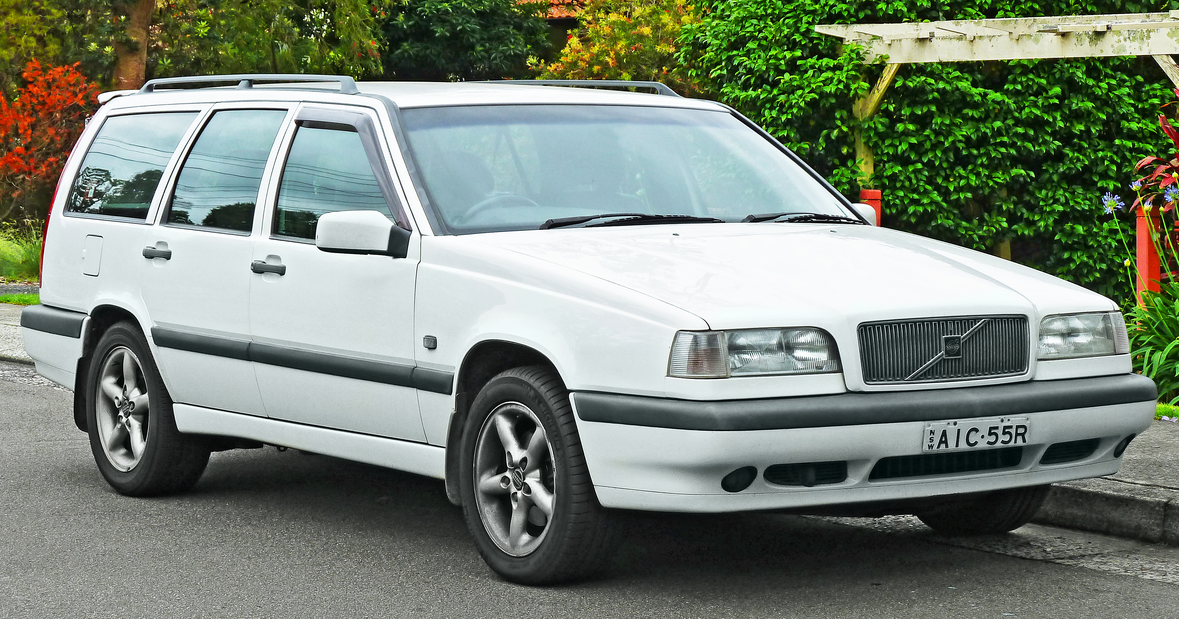 1997 Volvo 850 AWD station wagon. Photographed in Lindfield, New South Wales, Australia.